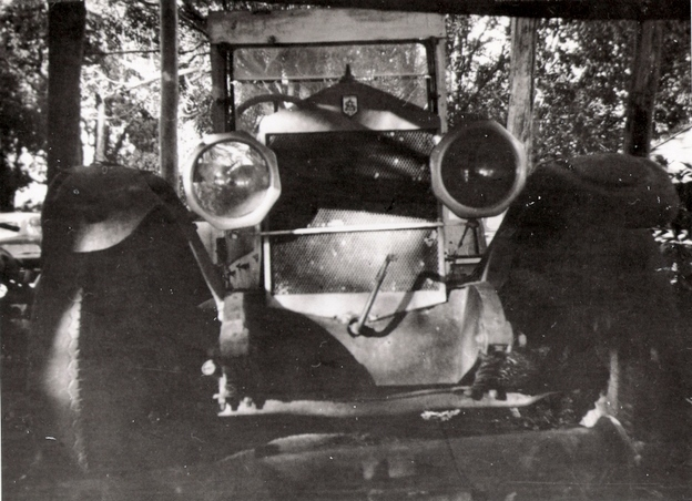 Side view of an Australian Six automobile (number A357)